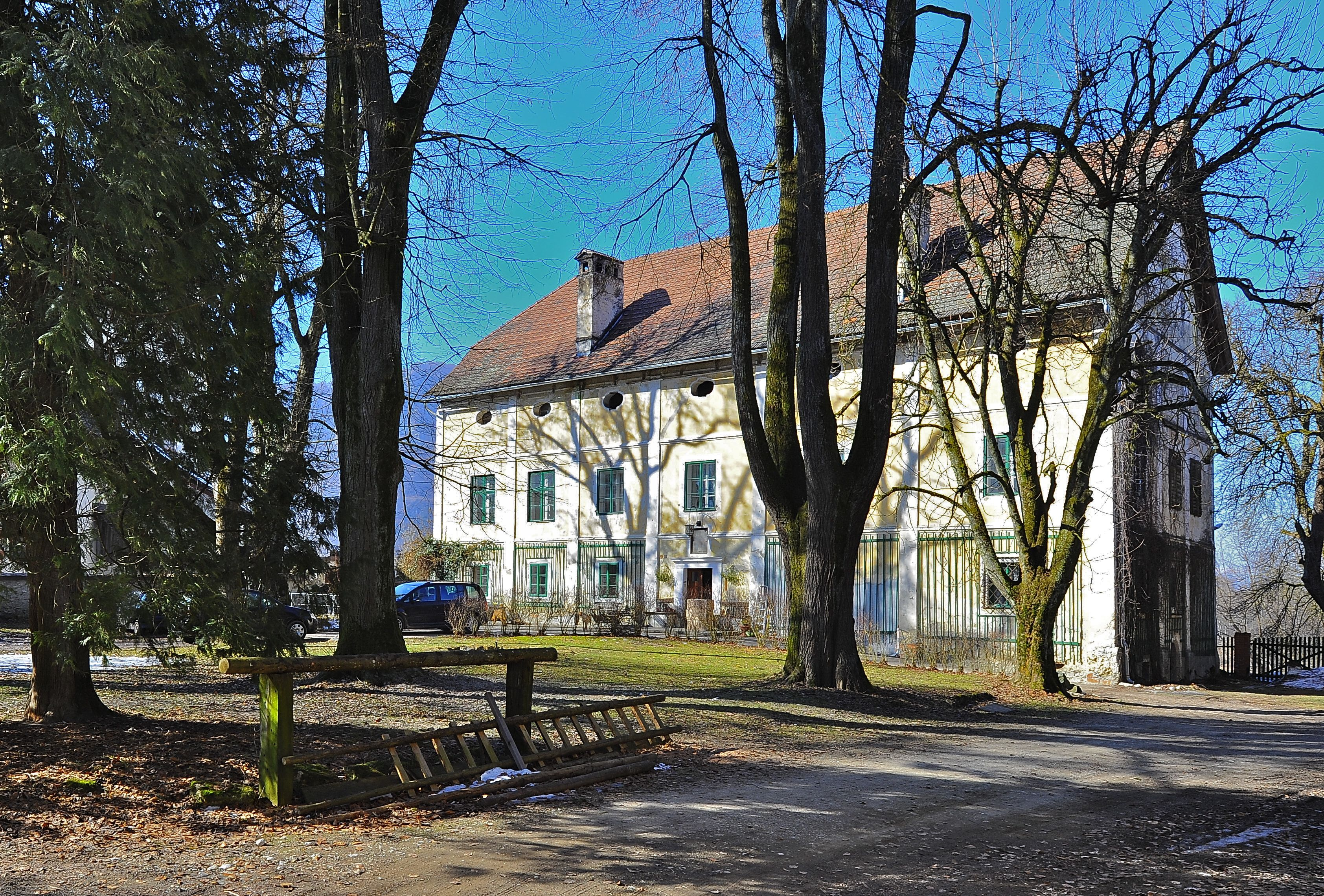 Castle in Möchling, municipality Gallizien, district Voelkermarkt, Carinthia, Austria